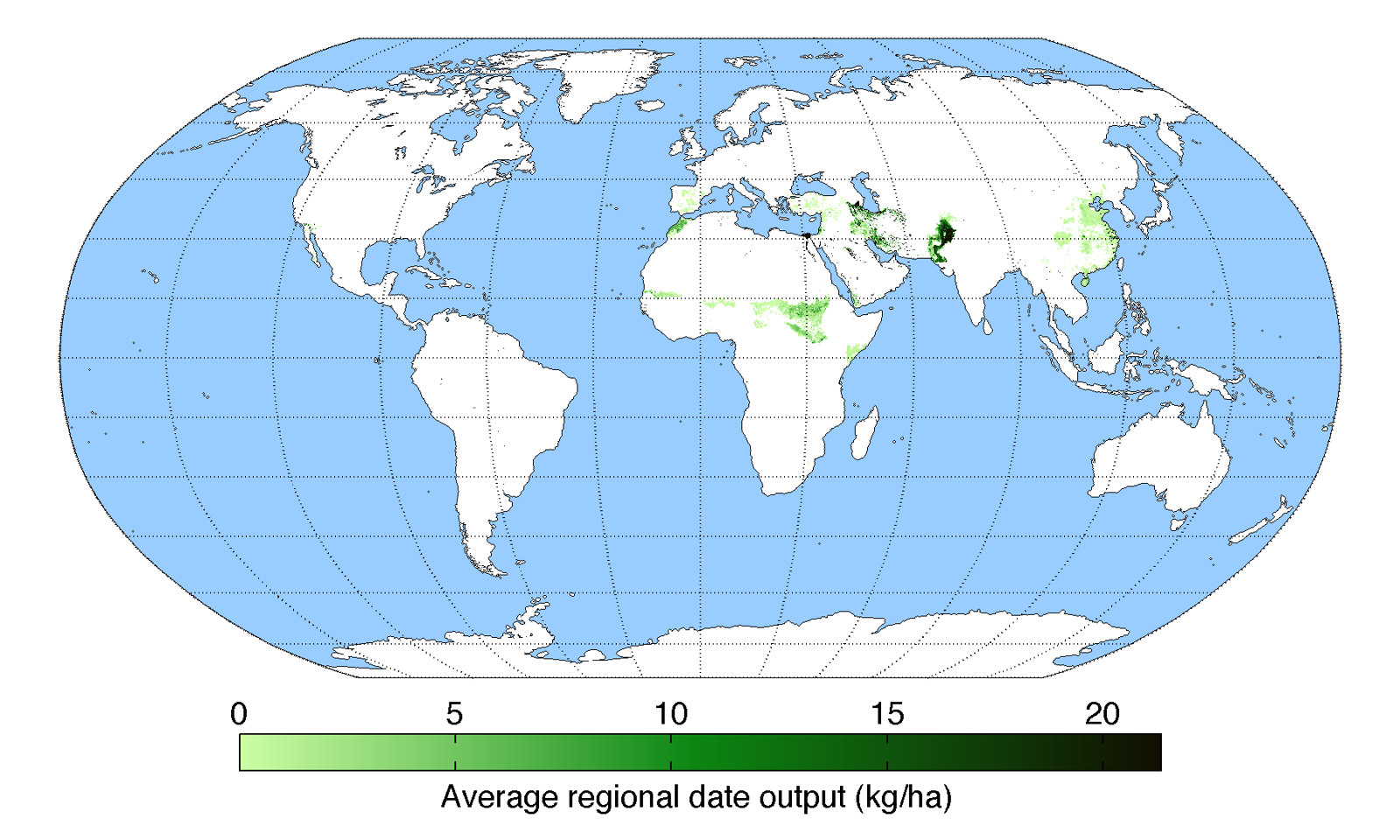 Map of date production (average percentage of land used for its production times average yield in each grid cell) across the world compiled by the University of Minnesota Institute on the Environment with data from: Monfreda, C., N. Ramankutty, and J.A. Foley. 2008. Farming the planet: 2. Geographic distribution of crop areas, yields, physiological types, and net primary production in the year 2000. Global Biogeochemical Cycles 22: GB1022